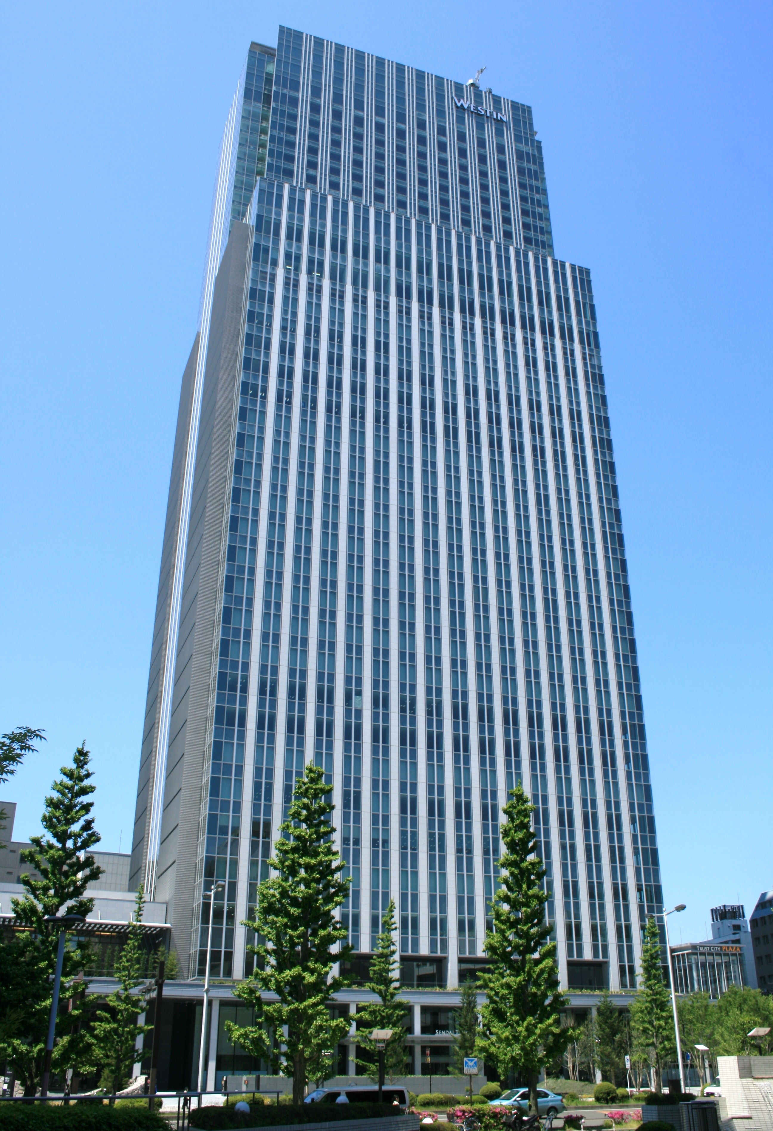 Sendai Trust Tower viewed from east. It is in Ichibancho (Ichibanchō), Aoba Ward (Aoba-ku), Sendai City (Sendai-shi), Miyagi Prefecture (Miyagi-ken), Japan.